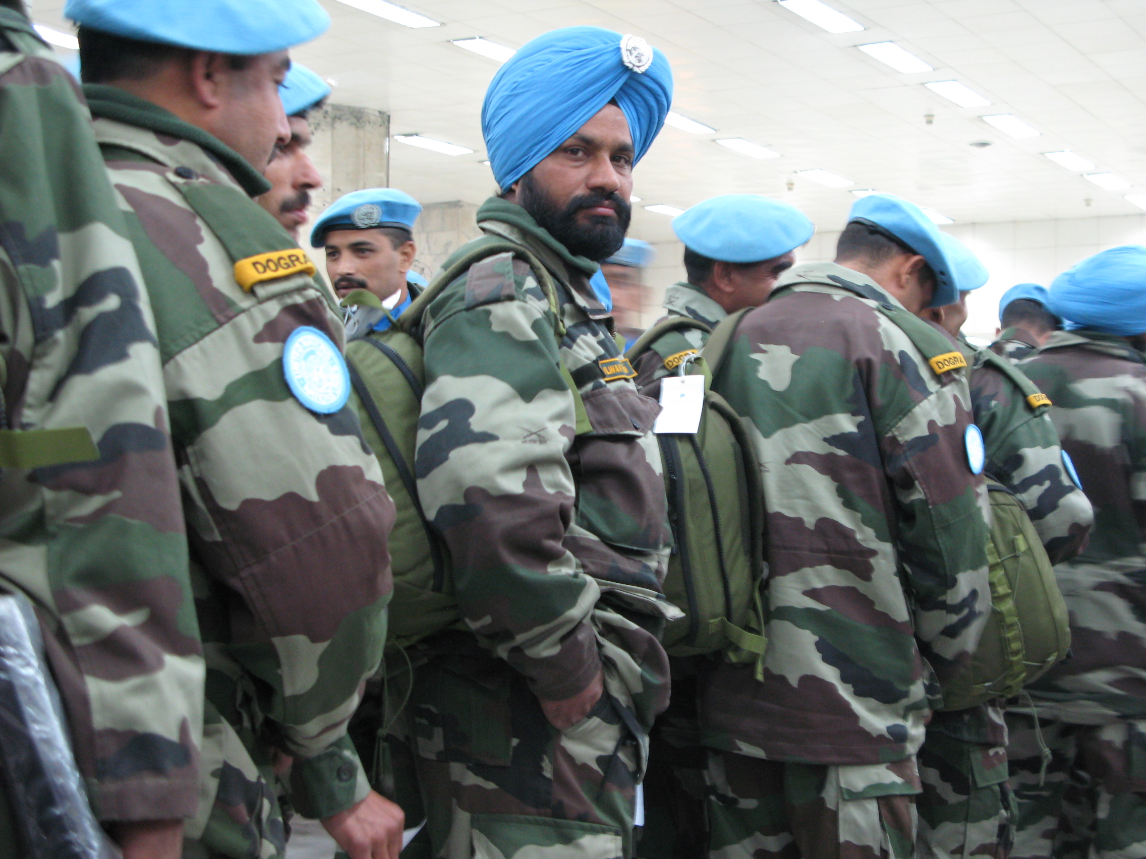 Handsome Indian Soldier Soldiers waiting to board their plane. "The Dogra Regiment is an infantry regiment of the Indian Army, formerly the 17th Dogra Regiment when part of the British Indian Army." I didn't know until later, when I looked at the larger picture, that this soldier was looking right at the camera.